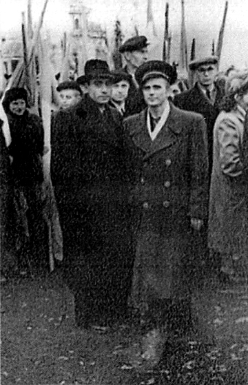 V. Kmetsynskyi on demonstrations. The 50 years of XX century. Kamin-Kashirskyi city.